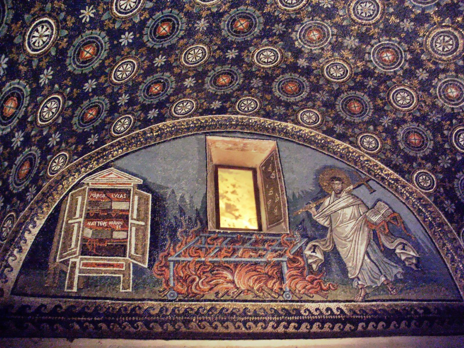 Martyrdom of Saint Laurentius - Mosaic in the Mausoleum of Galla Placidia in Ravenna